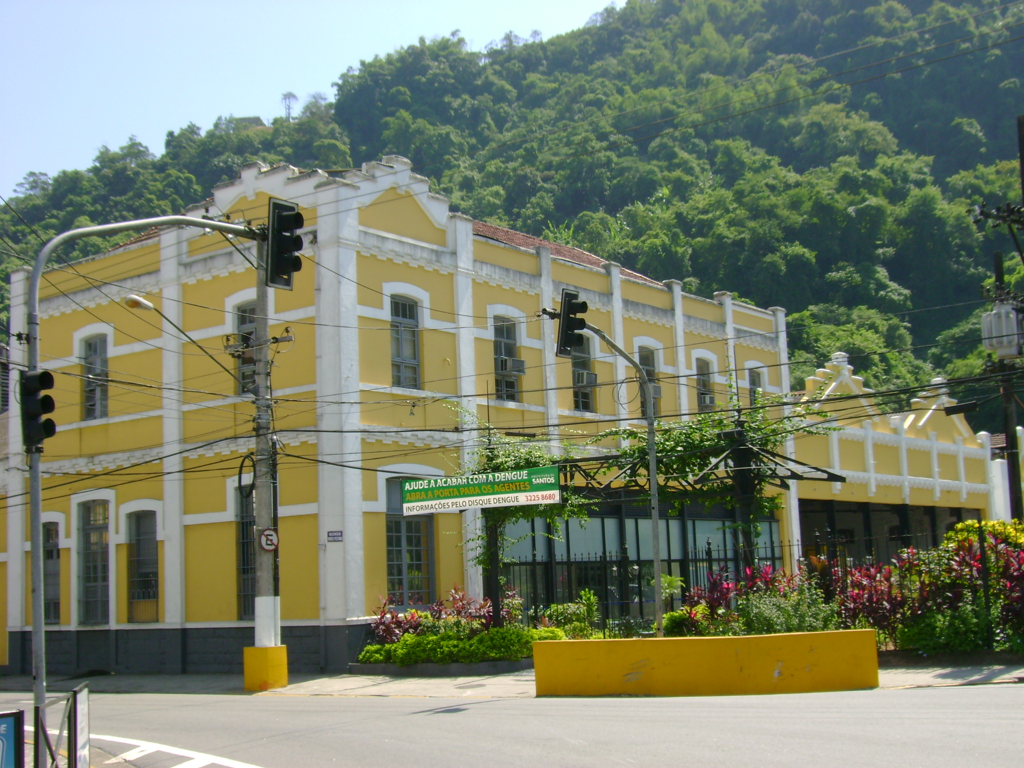 CET - Santos maintenance works.